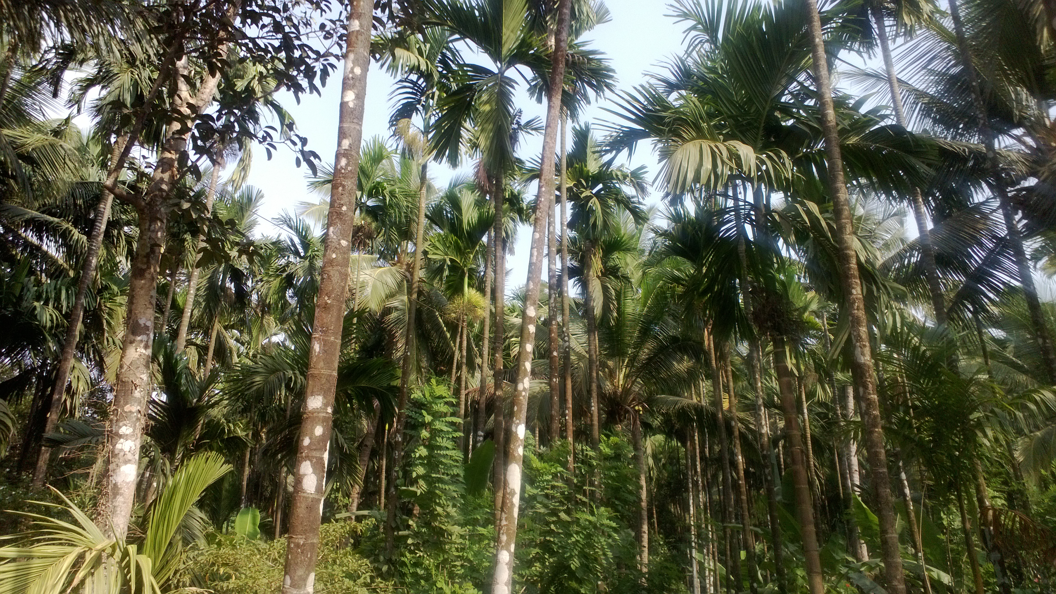 The Spice Farm at Curti, a town in the taluk of Ponda, Goa. Arecanuts, Coconuts and variety of spices are grown here.